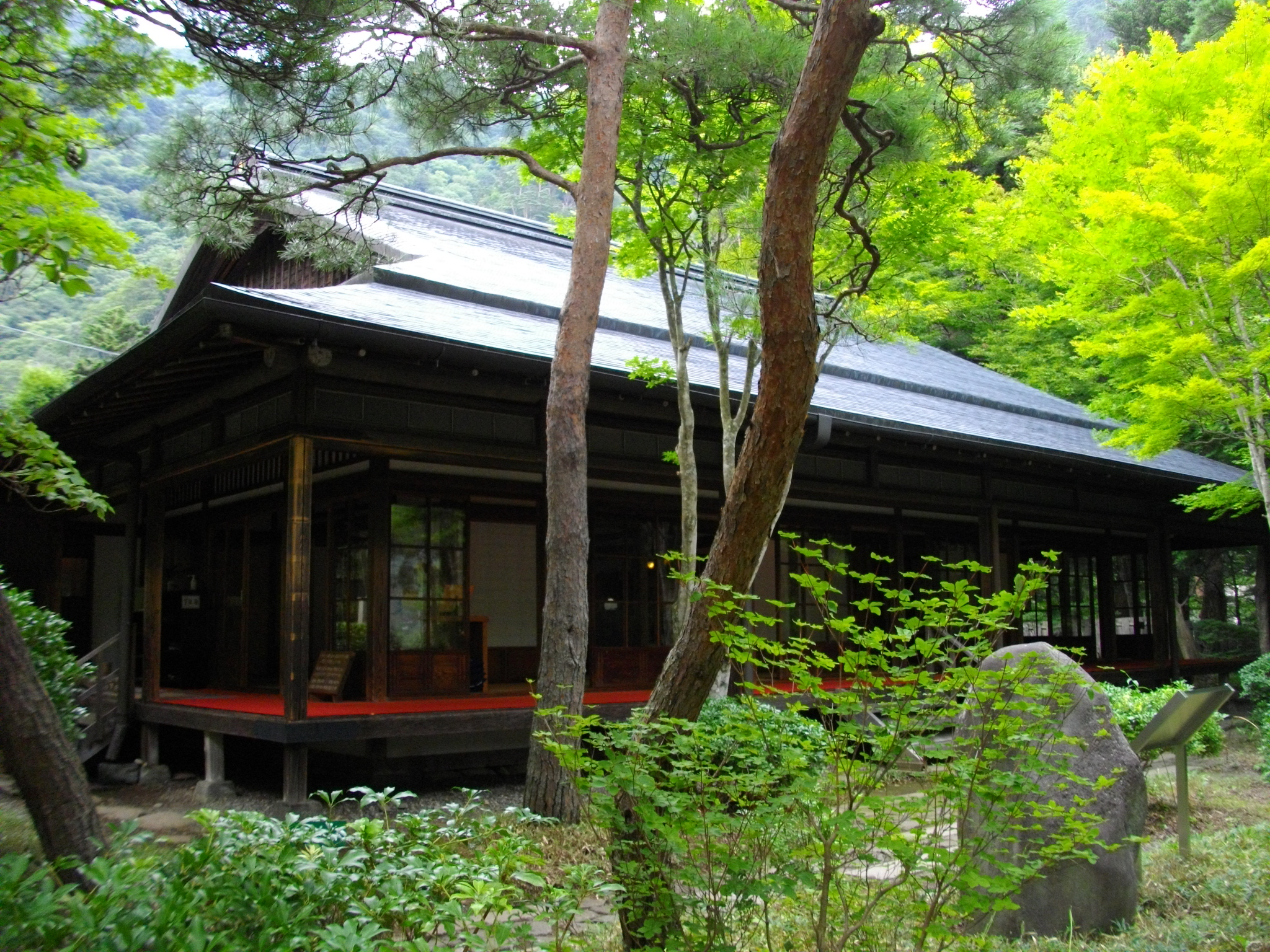 Imperial Villa Memorial Park (Nasushiobara)